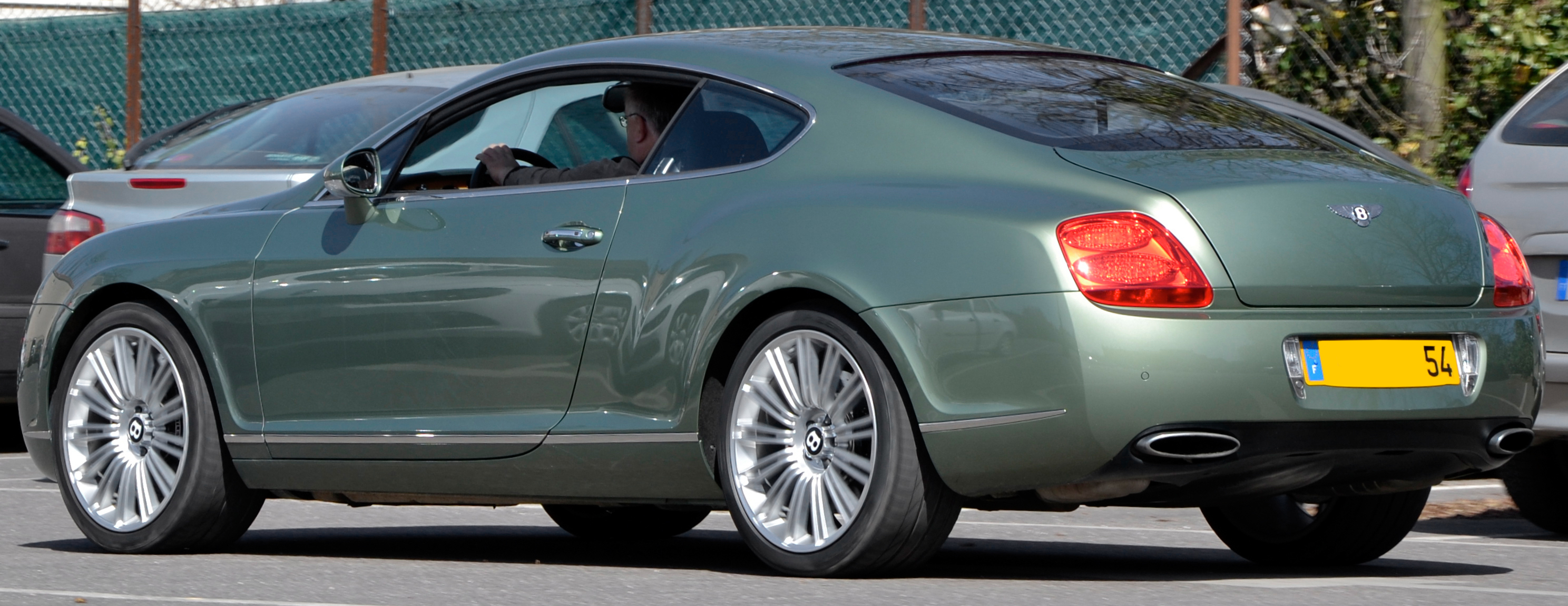 Bentley Continental GT Speed